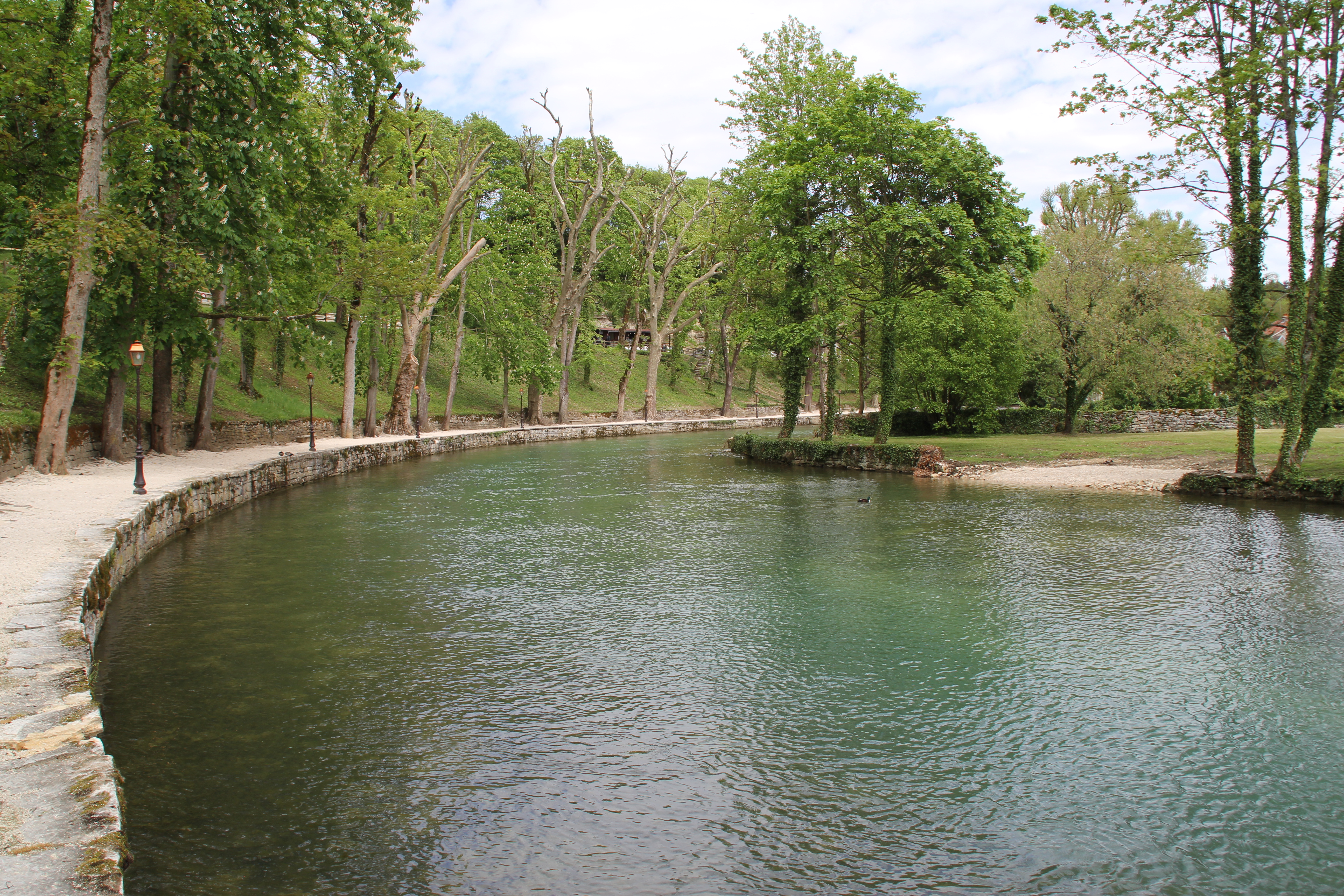 The Bèze river approximately 200 m below its source